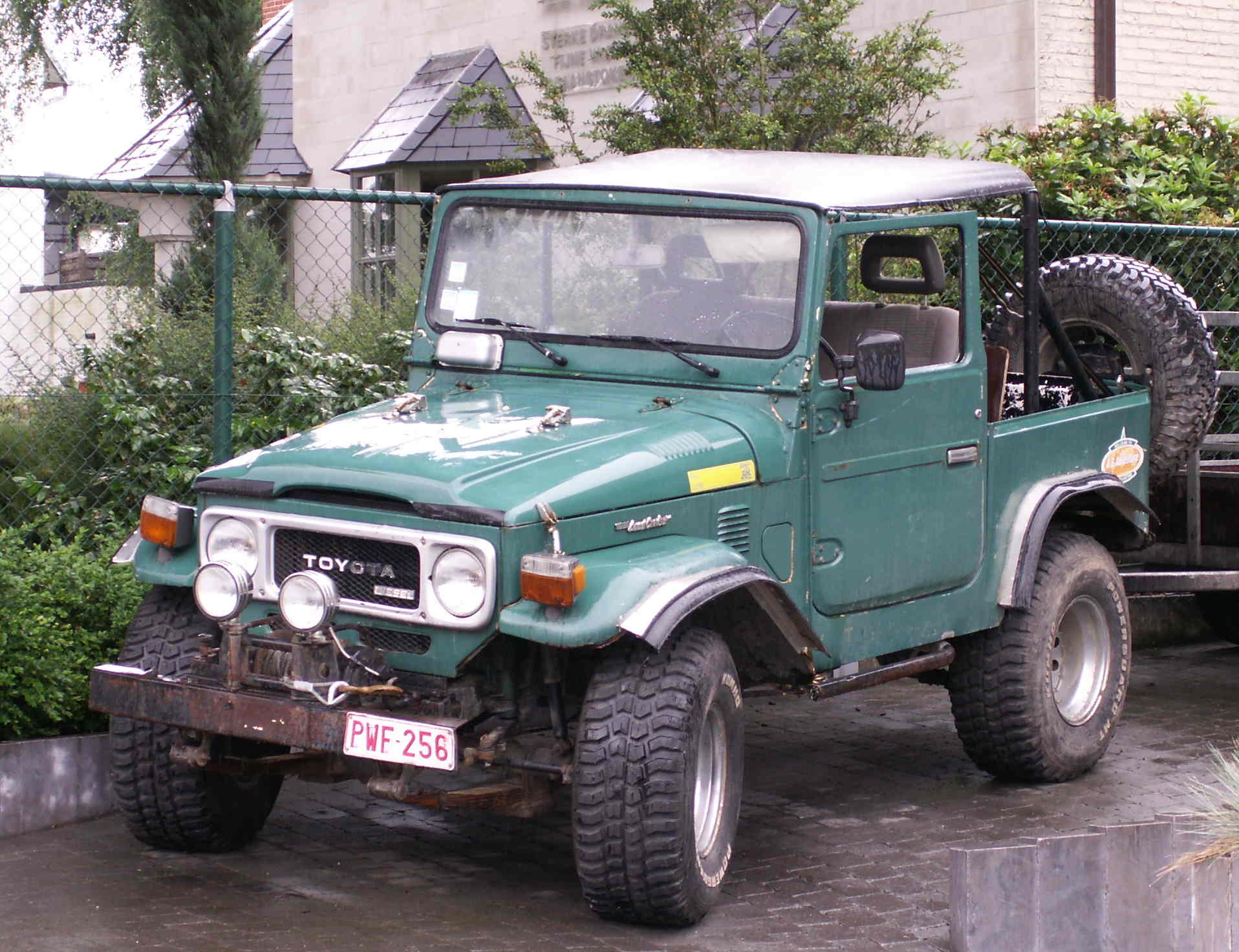 A picture of a Toyota BJ40V or 42V landcruiser convertible (old model). This sports utility vehicle is one of the better vehicles seen on the market and may be used as a second choice as mode of transport/transport of materials, if the M151A a sports utility vehicle, if the M151A2 MUTT proves too small or if it is not found locally. Depending on your requirements however, a van or share taxi -automobile may be even be more efficiently (consumption vs loading capacity). However, in any case (regardless of the vehicle used), a compressed air engine should be installed to allow the vehicle to operate environmentally.